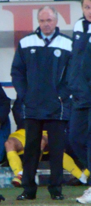 Image of Sven Goran Eriksson